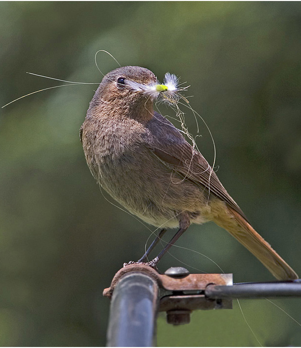 Female Black Redstart (Phoenicurus ochruros gibraltariensis) with nesting material